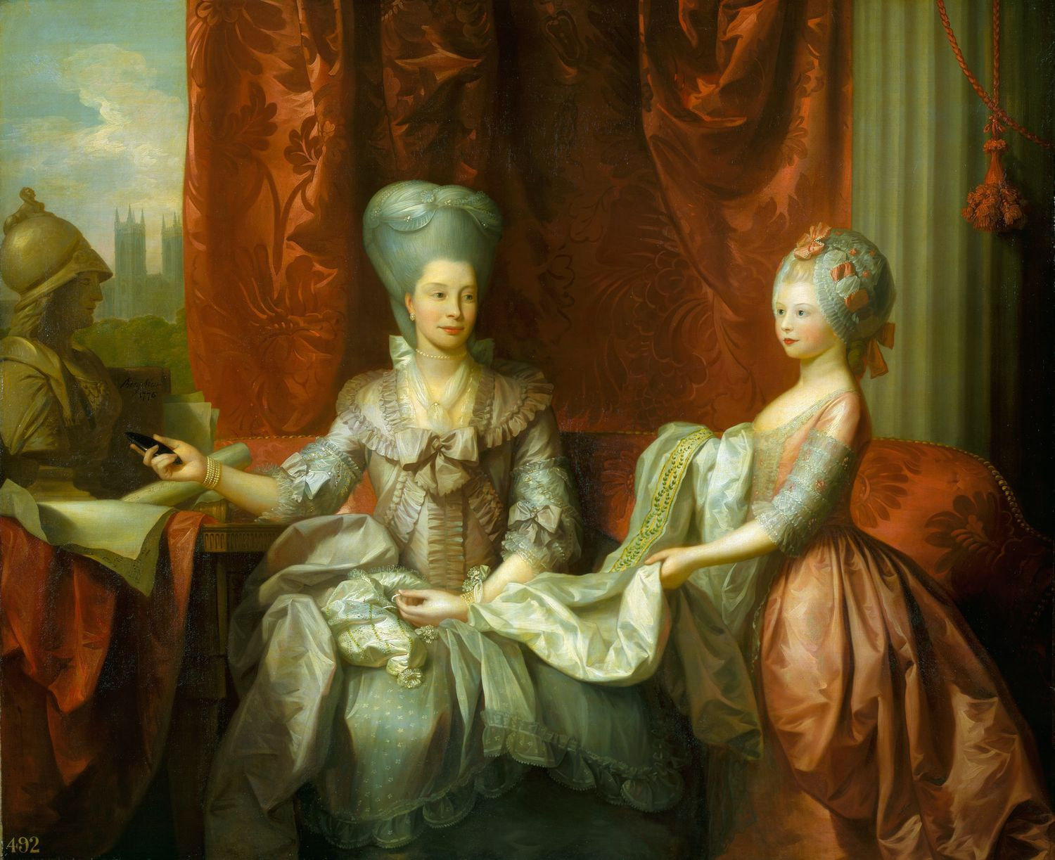 Between 1776 and 1778 George III commissioned as set of five double or group portraits of his family to hang together in the King’s Closet at St James’s Palace (OM 1142-5 and OM 1147, 404573-4, 403398-9 and 405406). His Queen and twelve of his children are included in the arrangement (two appear twice); every portrait is filled with action, instruction and affection, making them seem almost like extended versions of the conversation pieces commissioned by George III’s parents, such as OM 573, 405741. In this double portrait the Queen and the Princess Royal are engaged in tatting a piece of material or embroidery between them; on the table beside the Queen is a bust of Minerva, a sheet of music and papers; in the distance are St James's Park and Westminster Abbey. As if all this were not improving enough there is a sheet of drawings by Raphael. West was paid 150 guineas for this painting which was exhibited at the Royal Academy in 1777.